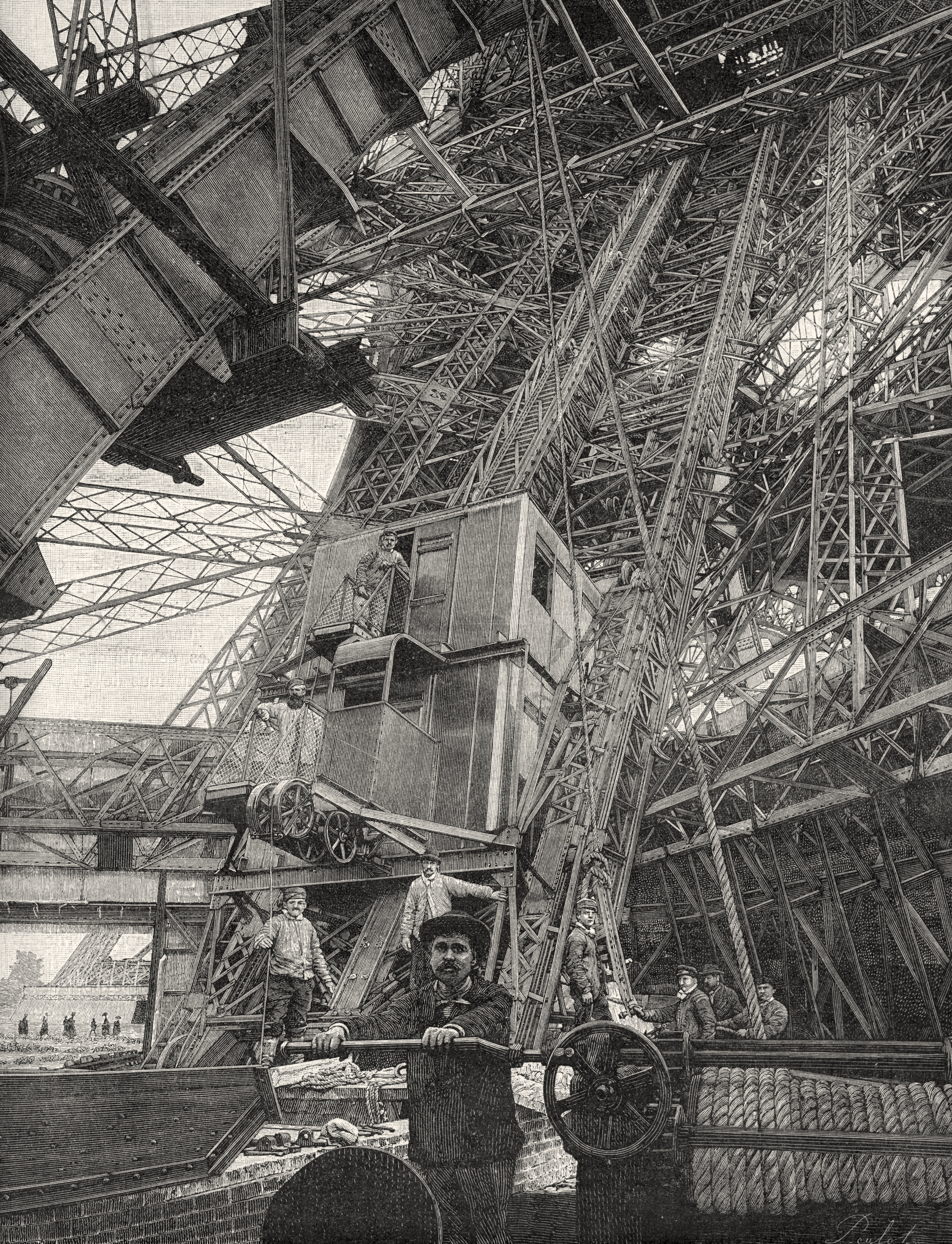 Elevator in one of the pillars of the Eiffel Tower. There were two kinds of elevators on the tower. Some were built by Otis (pillars 1 and 3), and others by Combaluzier (pillars 2 and 4).